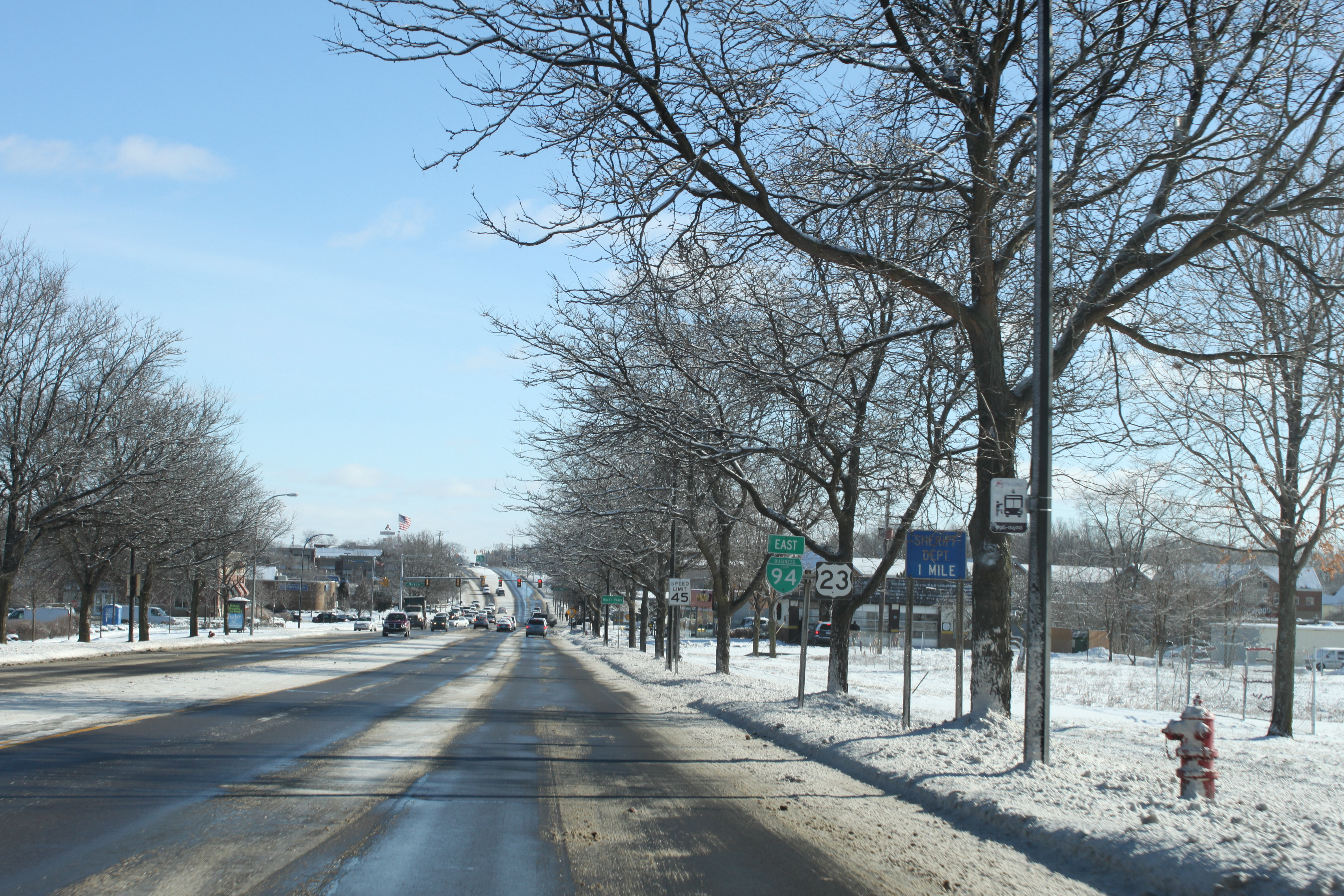 Interstate 94 Business Route, Washtenaw Avenue, facing east, Ann Arbor, Michigan